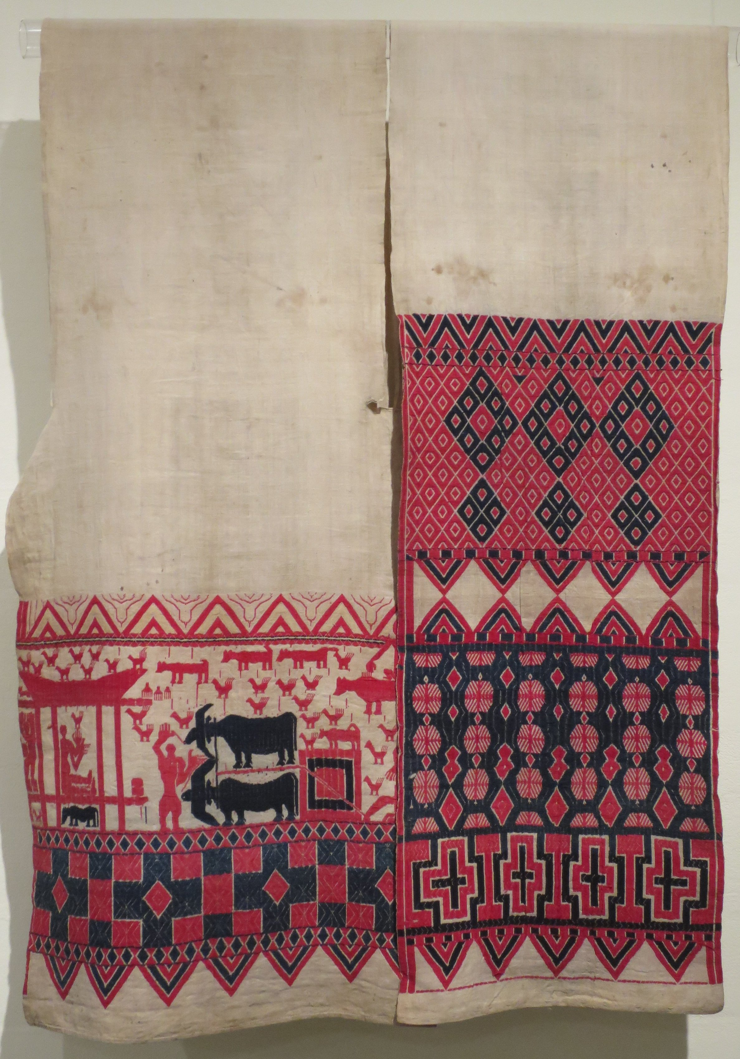 Pio uki (loincloth used as ceremonial banner), Indonesia, Sulawesi, Galumpang, Sa'dan Toradja, c. 1915, cotton, plain weave with supplementary weft, pattern weave, Honolulu Museum of Art accession 10470.1